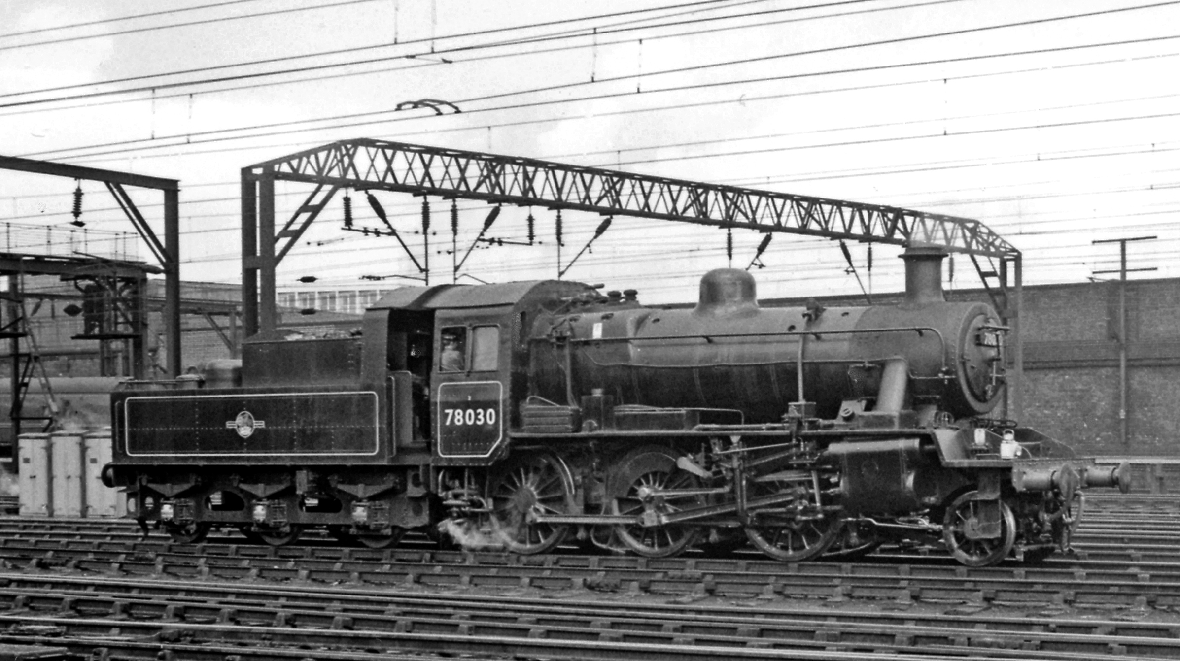 BR Standard 2MT 2-6-0 at Crewe. A very smart No. 78030 (built 9/54, but withdrawn 10/65) is on pilot work at the south end of the station, seen from Platform 3.